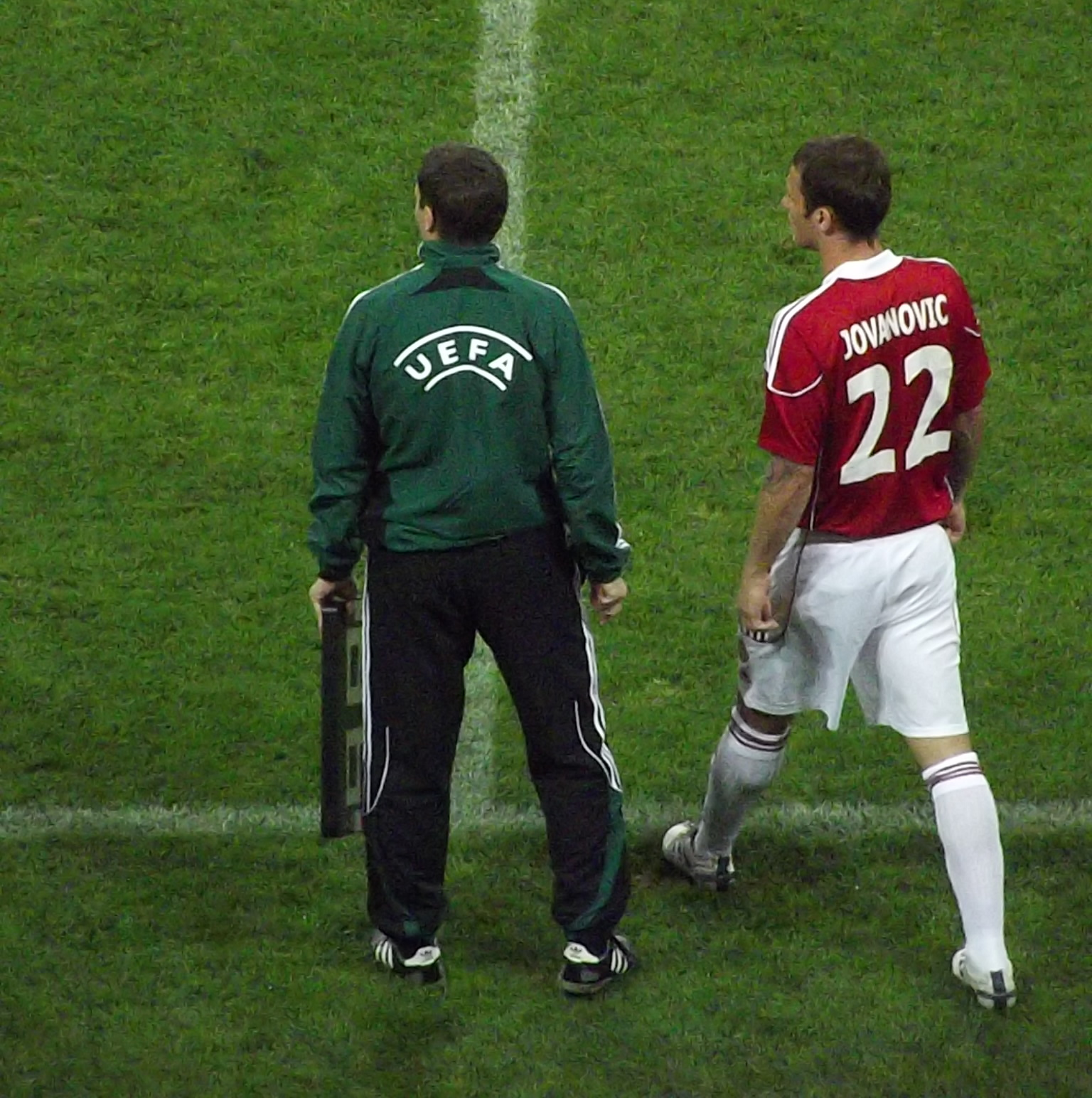 Jovanović entered in the game